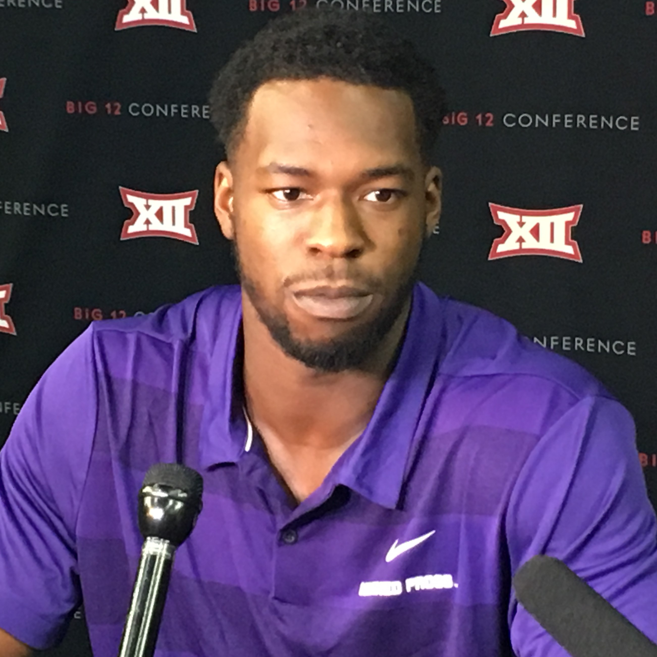 Ben Banogu, defensive end for the TCU Horned Frogs football team, at the 2018 Big 12 Conference Media Days in Frisco, Texas.